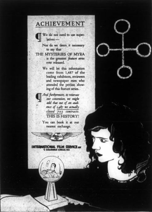 Advertisement for the American mystery film serial The Mysteries of Myra (1916), on page 29 of the April 28, 1916 Variety.